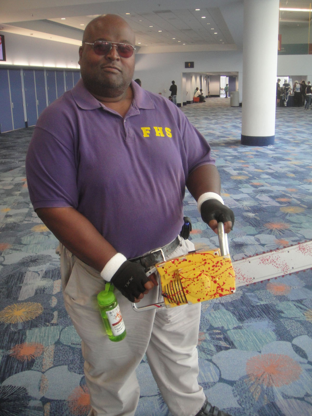 AM2 Con 2012 - Coach from Left4Dead